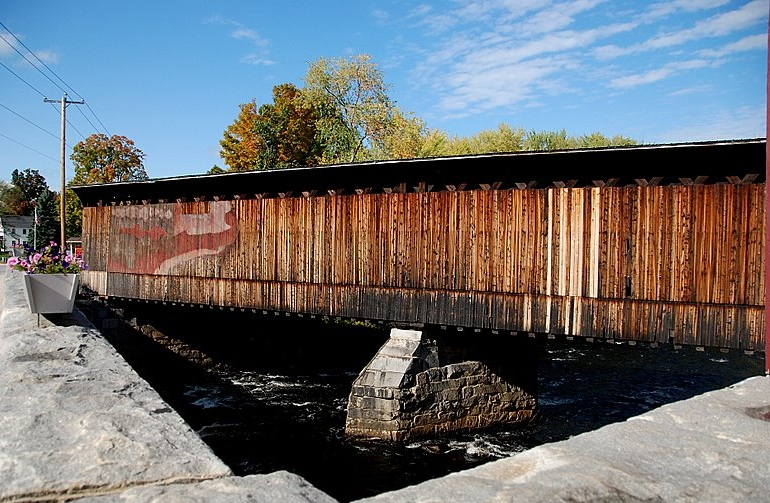 The oldest surviving covered railroad bridge existing in the United States.